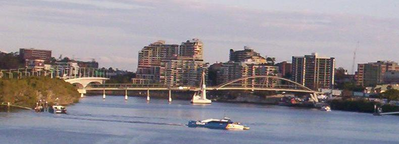 Goodwill Bridge and the CityCat, taken from Victoria Bridge